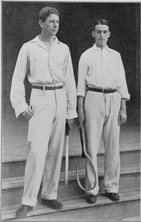 Dwight Filley Davis and Holcombe Ward: the American Team that Played Against England in Doubles (Davis Cup, 1900).